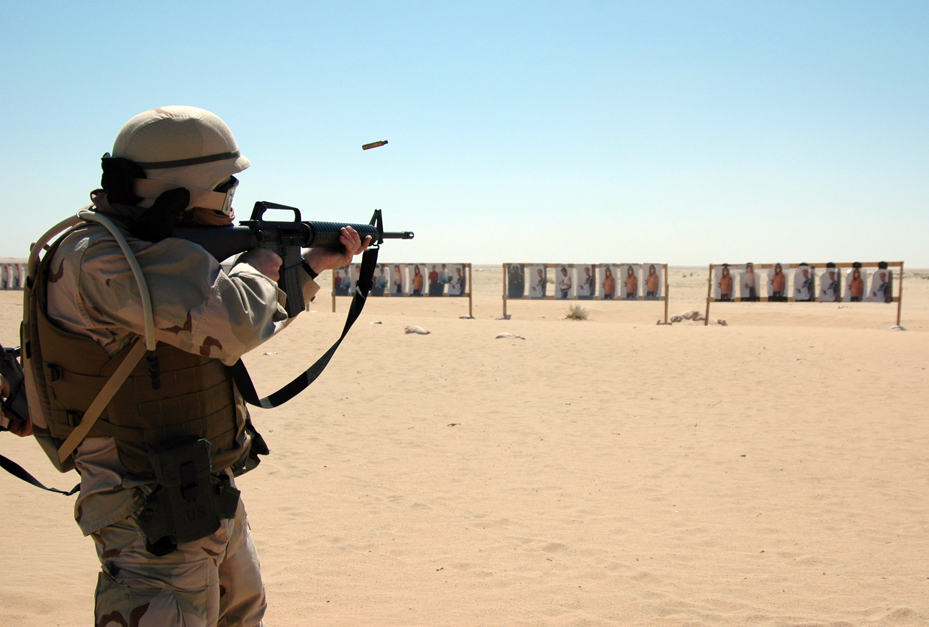 Camp Morell, Kuwait (Mar. 17, 2005) – Equipment Operator 2nd Class Keith Garner, of Birmingham, Ala., hones his shooting skills on the firing range at Camp Morell, Kuwait. Petty Officer Garner is a Seabee reservist assigned to Naval Mobile Construction Battalion Two Four (NMCB-24). NMCB-24 is training before deploying to Iraq in support of the Global War on Terrorism. U.S. Navy photo by Photographer's Mate 1st Class James Finnigan (RELEASED)